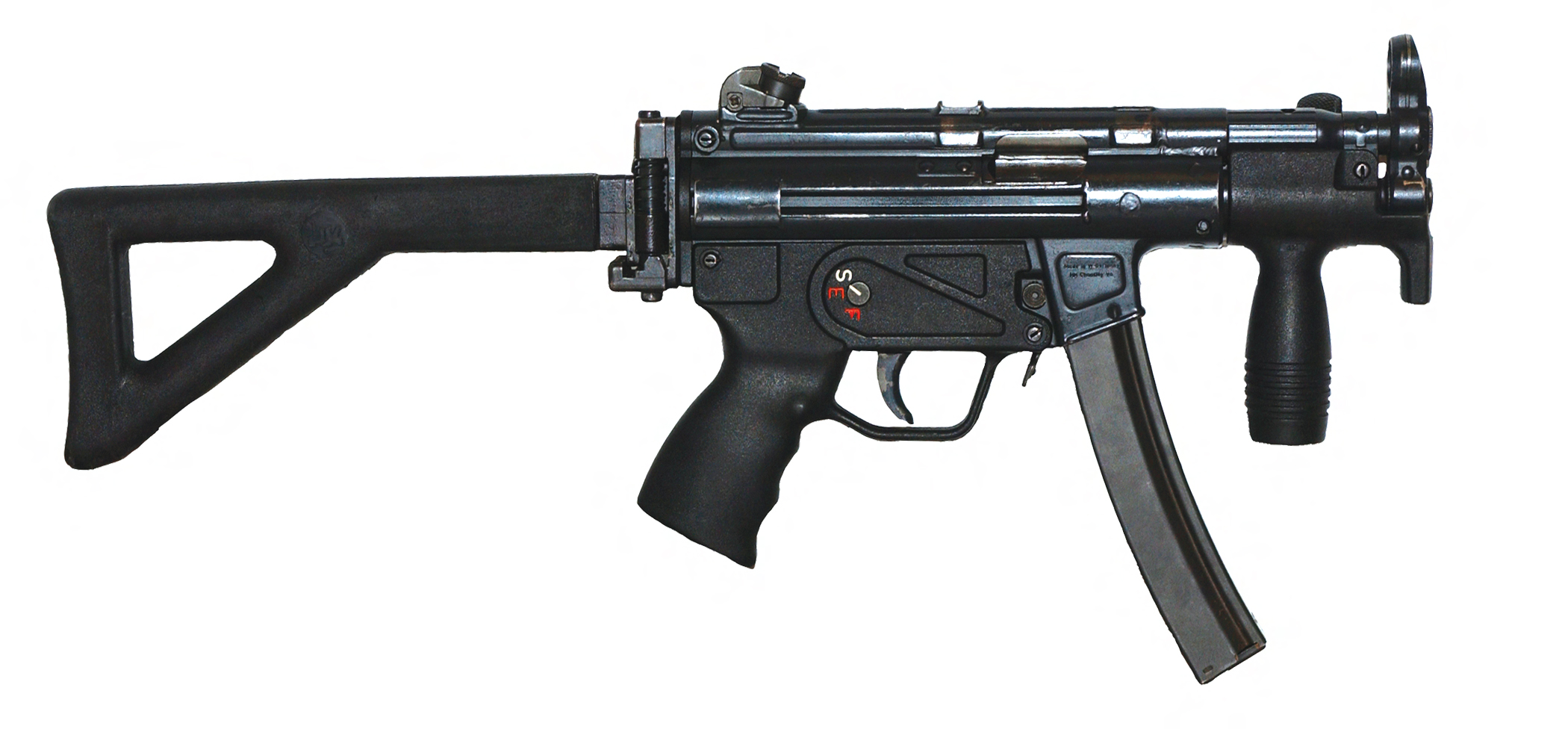 MP5K Submachine Gun Primary function: Anti-personnel. Length: 12.8 in. Weight: 4.4 lbs. Caliber: 9 mm NATO. Maximum effective range: 100 meters. Cyclic rate of fire: 900 rounds per minute.